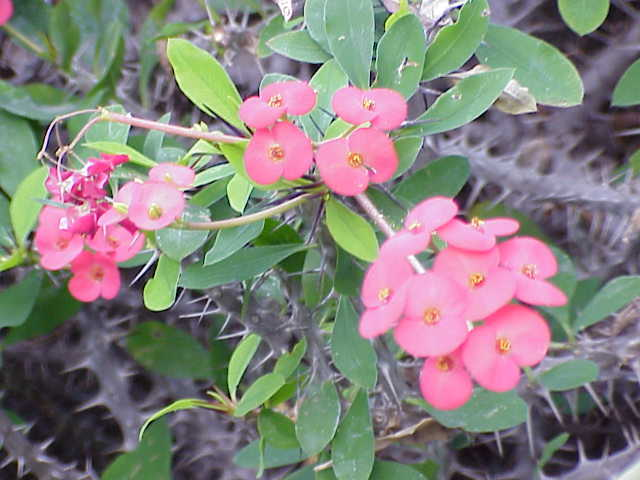 Species: Euphorbia milii Family: Euphorbiaceae Image No. 4